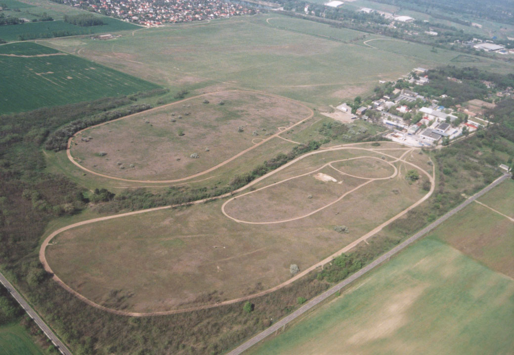 Dunakeszi - Hungary - Europe